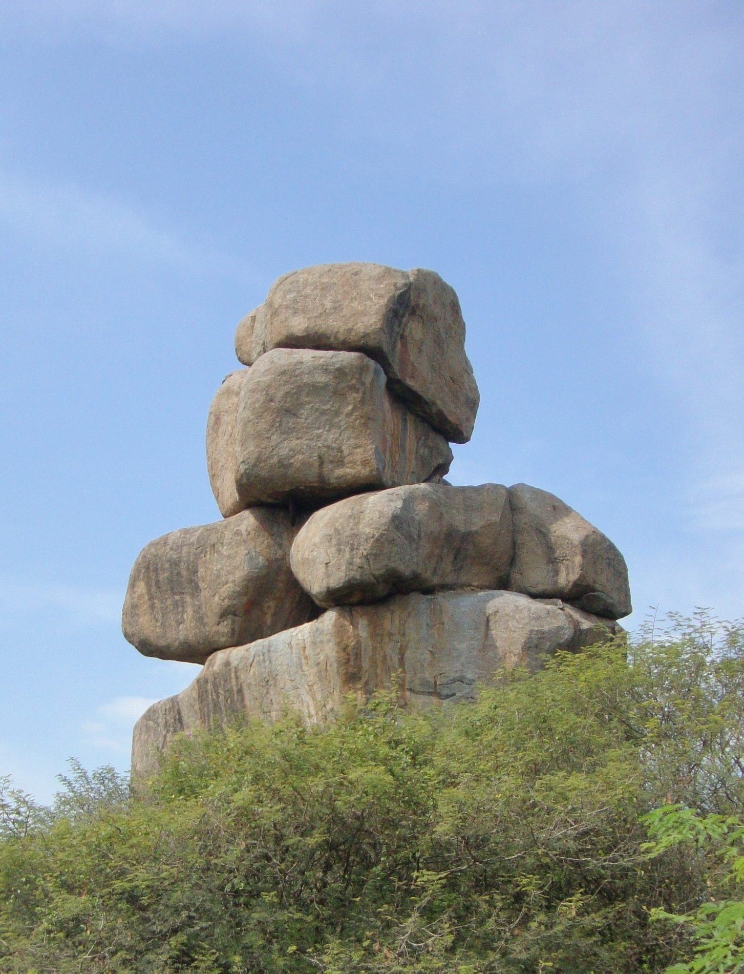 Present in Nehanurpatti